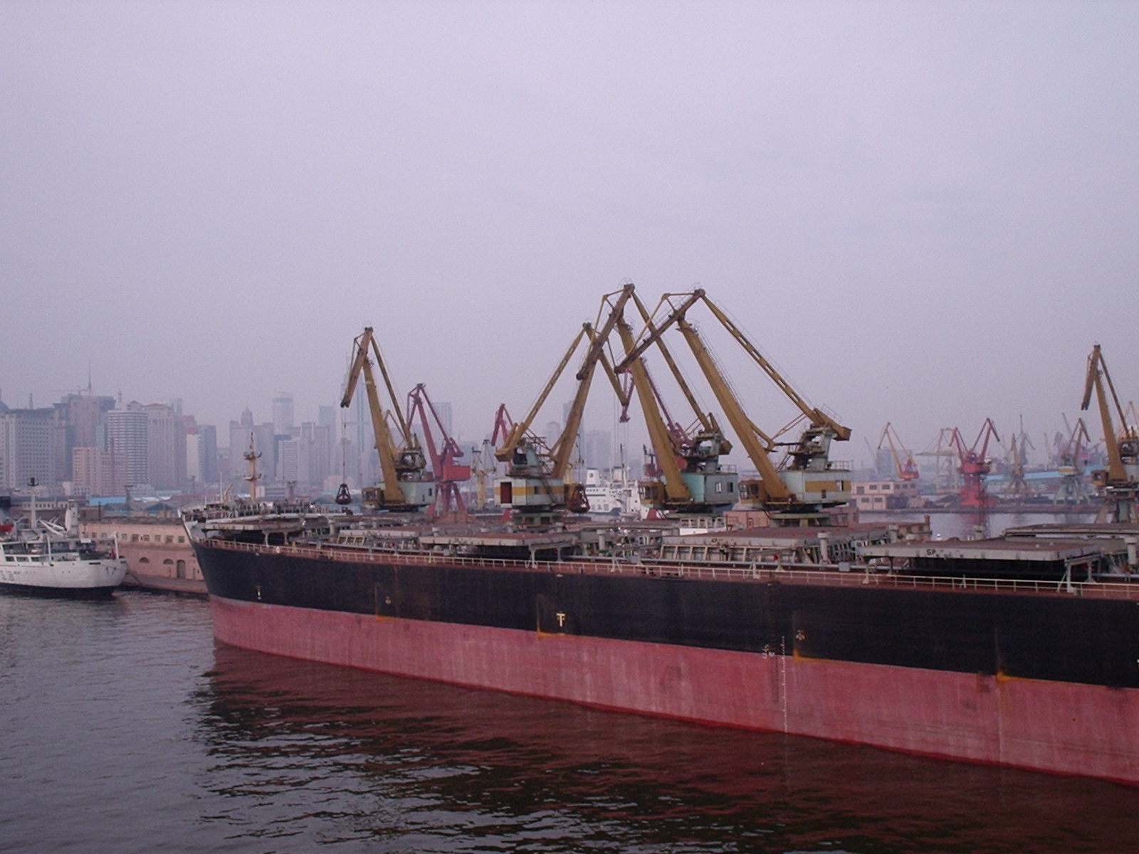 Dalian is the main port for North East China, and is the 3rd largest port in the whole of China. Here you can see a number of the harbour crains in action and behind them the skyline of Dalian proper.